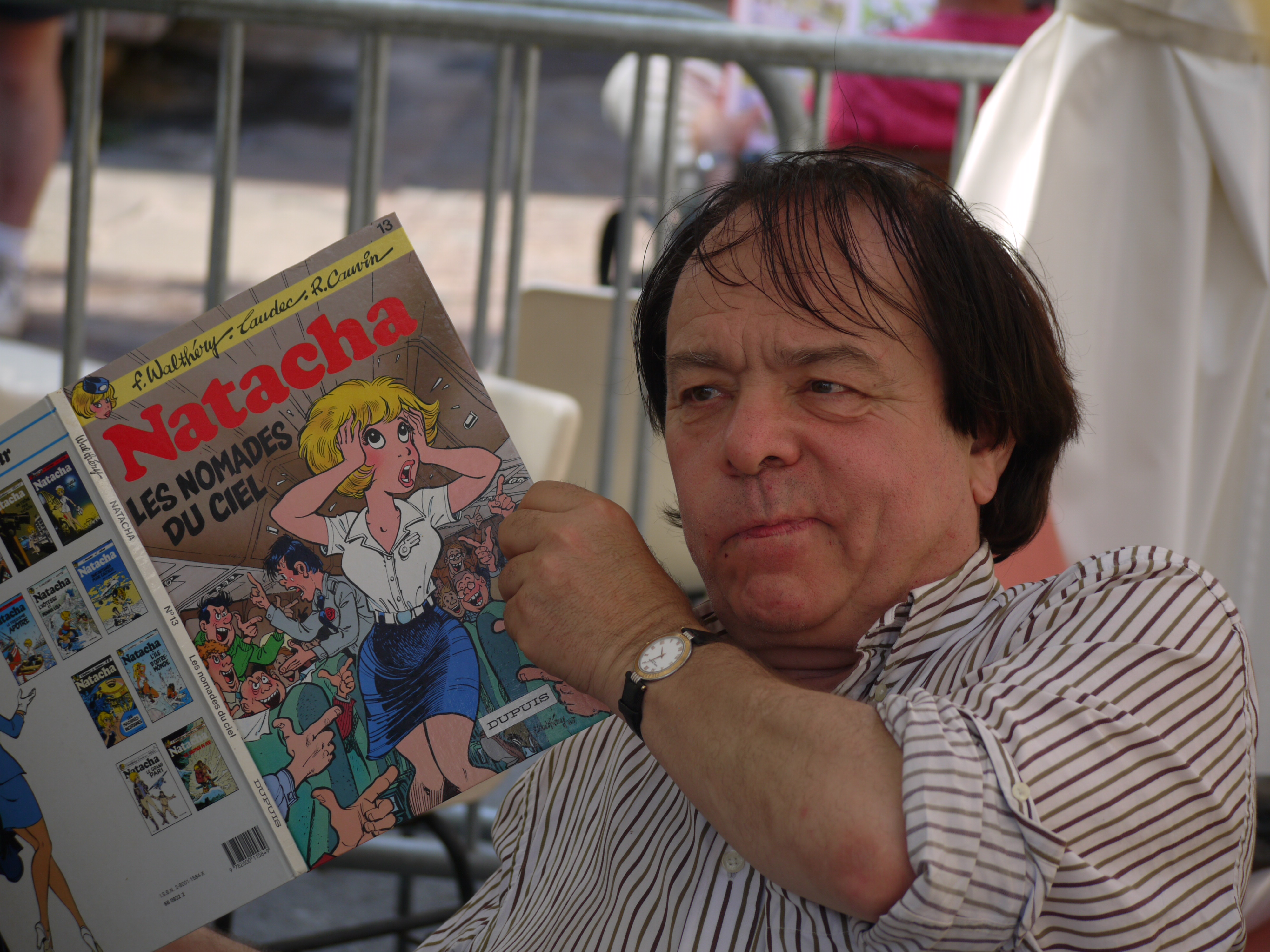 Photograph taken during the 2009 edition of the Comic Strip Festival of Roquebrune sur Argens in France. - OpenStreetMap (Info)